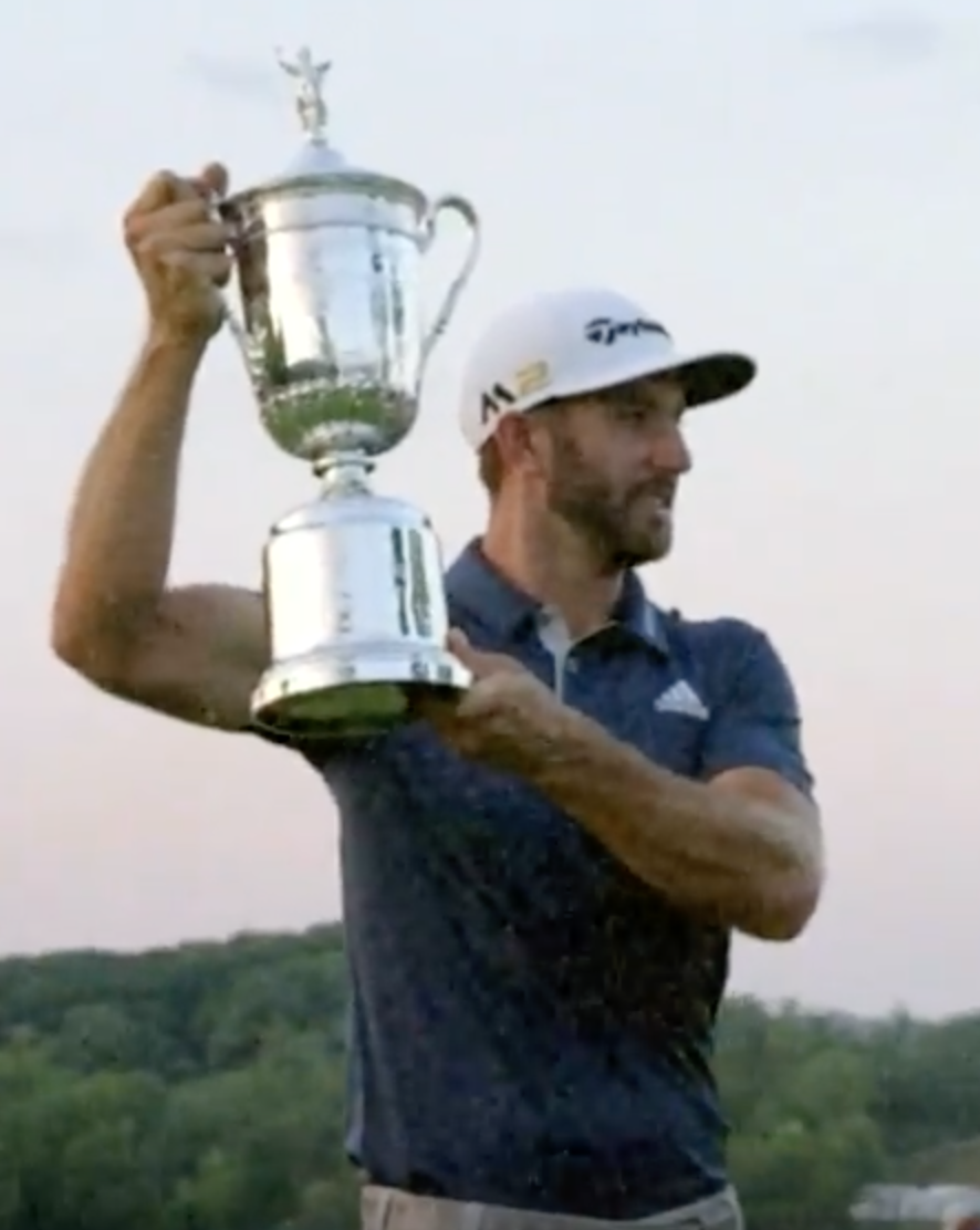 Dustin Johnson 2016 US Open Golfer